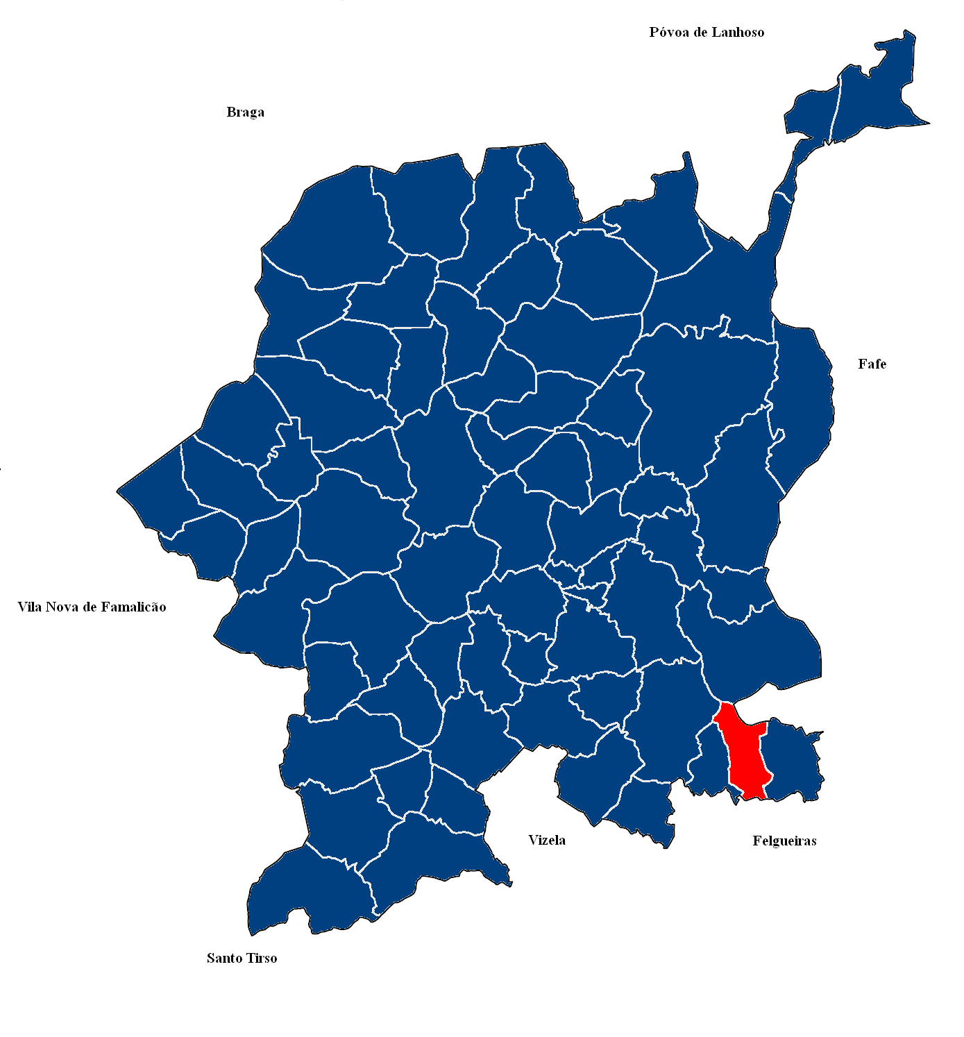 Map of Calvos parish, Guimarães Municipality, Portugal